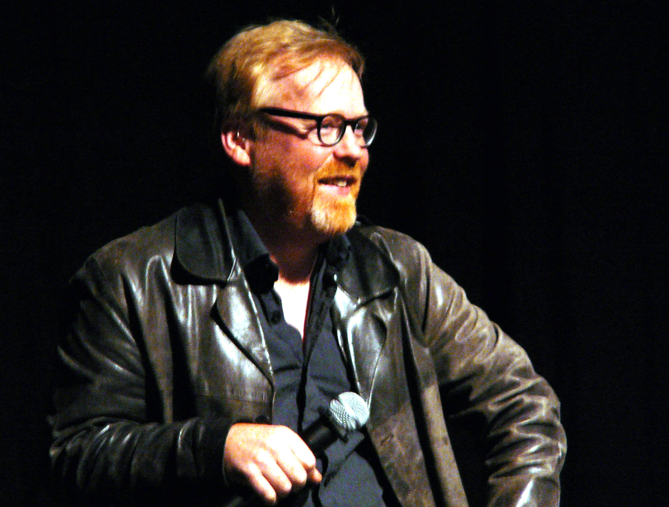 Adam Savage from Mythbusters